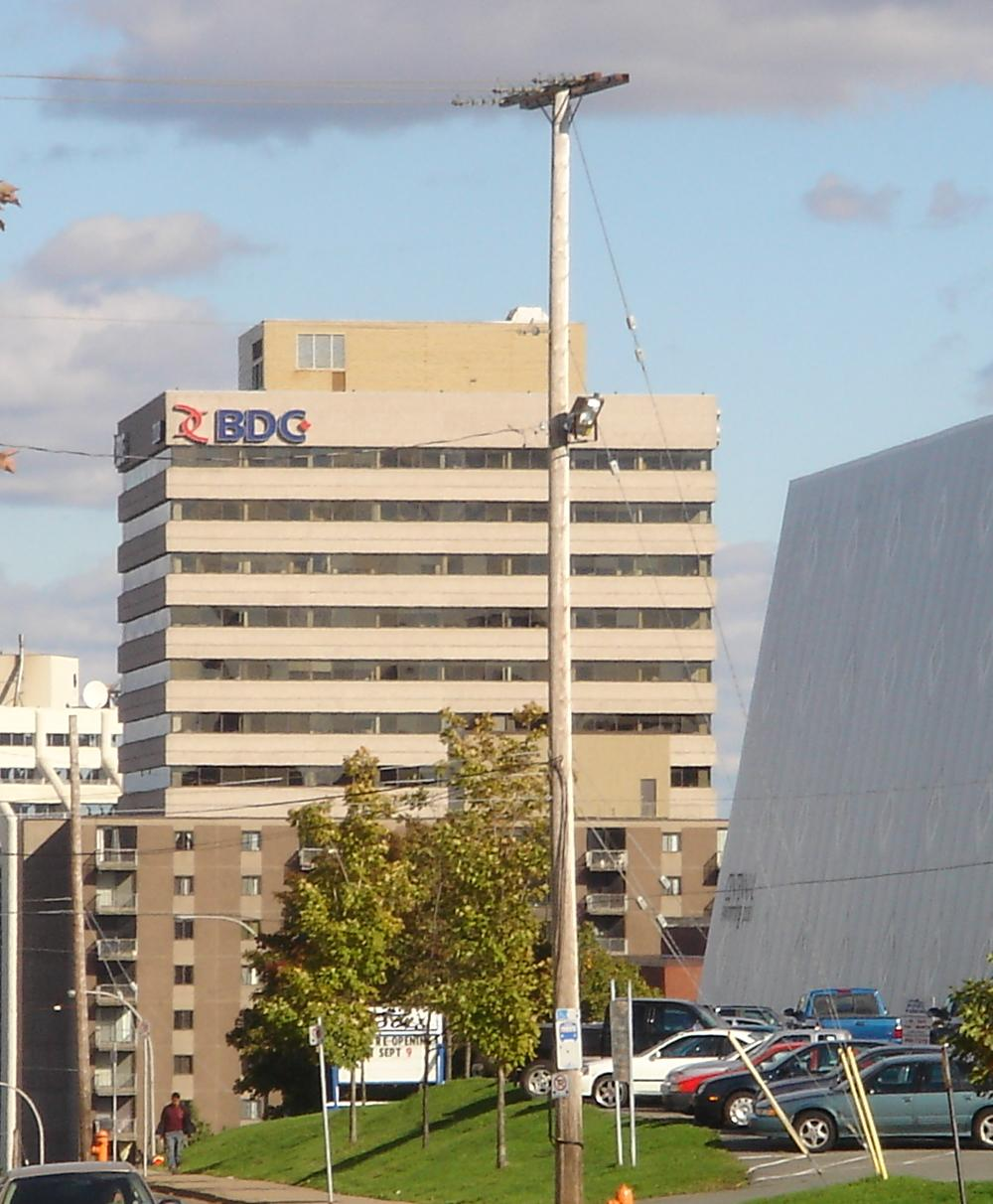 I am the author of this photo